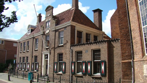 Cityhall Krommenie